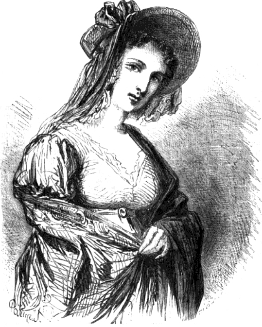 Clarisse Manson, a witness in the murder of Antoine Bernardin Fualdès (1761–1817)